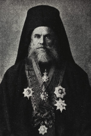 Metropolitan Alexander of Thessaloniki (1851-1928): Greek bishop